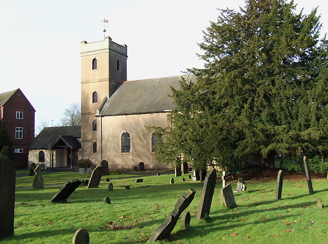 The Church of St Michael, Himley, Staffordshire. Himley Church was a neat brick building, erected in 1764. The drab rendering of the walls now does little to enhance its appearance. Nearby is a very substantial old rectory, still showing its Georgian brick. 642578